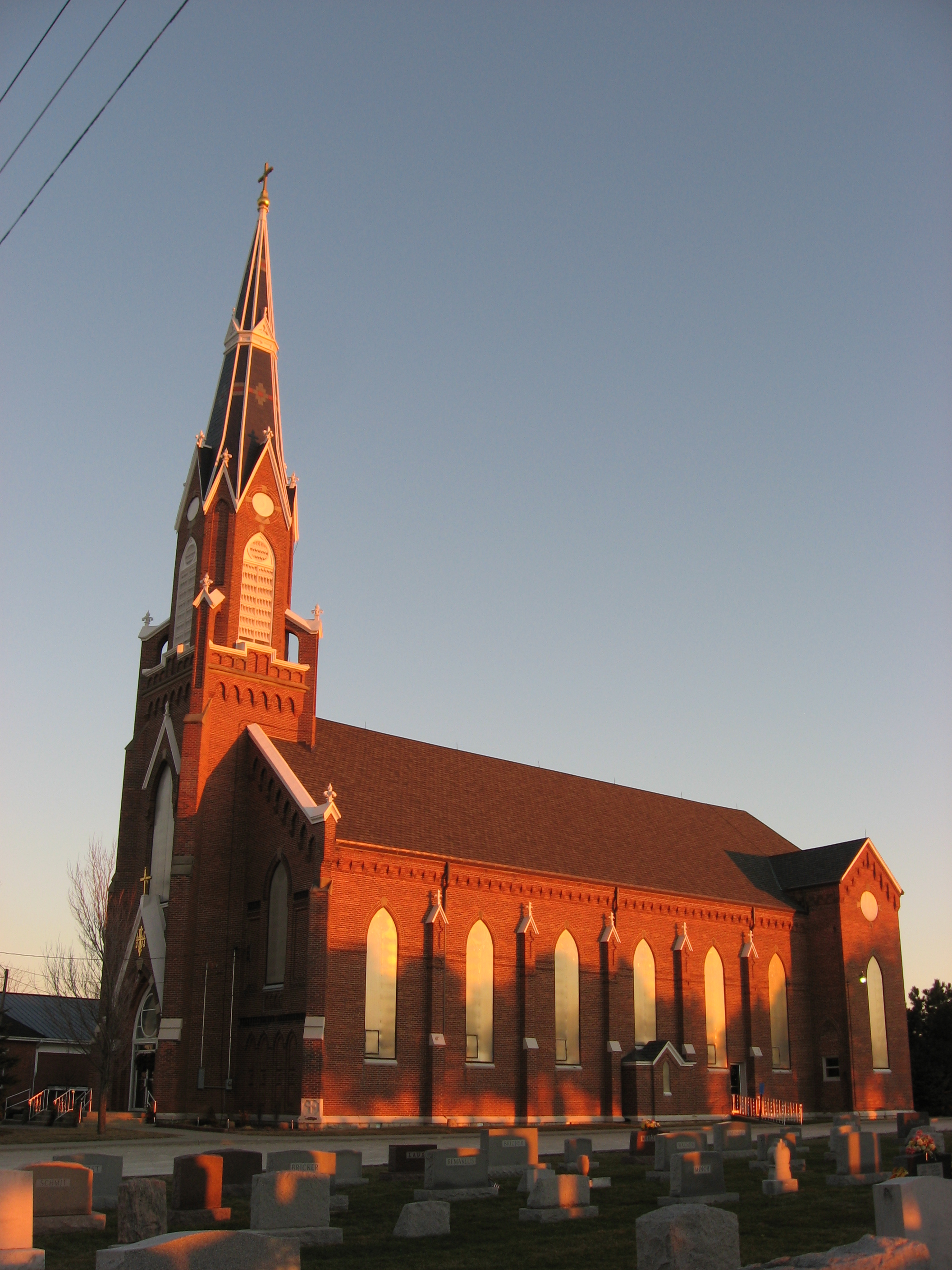 Front and western side of Holy Trinity Catholic Church, located along State Road 67 in Trinity, an unincorporated community in Wabash Township, Jay County, Indiana, United States. Built in 1889, the church is listed on the National Register of Historic Places.